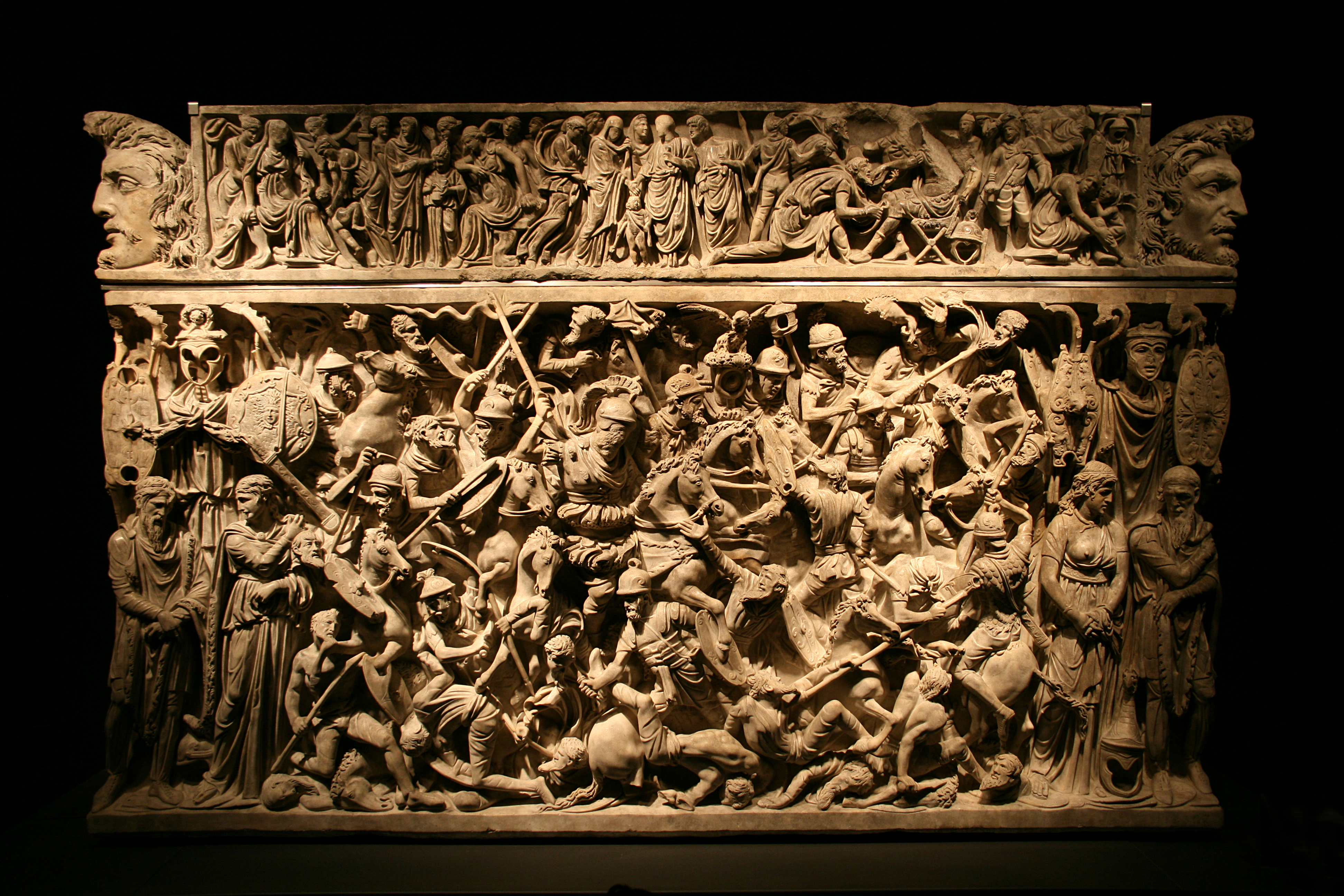 The Sarcophagus of Portonaccio, a work probably carved during the Mac Aurelius time for a Roman general representing scenes of battles between the Romans and the Germans and the Sarmatians, as well as scenes from the life of this soldier - Palazzo Massimo alle Terme, Rome (Italy).